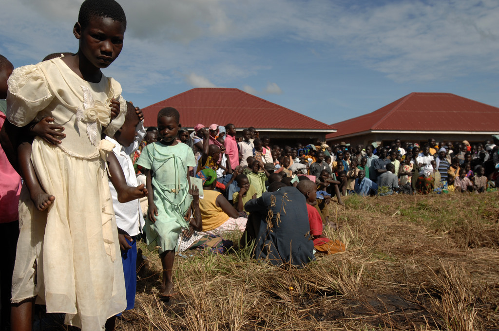 Ugandan people traveled from local villages and are lined up outside of Palabek Kal Health Clinic waiting to be treated during Natural Fire 10 in Uganda, Oct 18, 2009. Natural Fire 10 is a humanitarian and disaster relief exercise that will enhance participants' capabilities to work together in response to complex humanitarian emergencies. This year’s exercise is held 16 - 25 October 2009 and involves almost 1300 people from 5 East African countries and the United States. (U.S. Air Force photo by Staff Sgt. Samara Scott/Released)